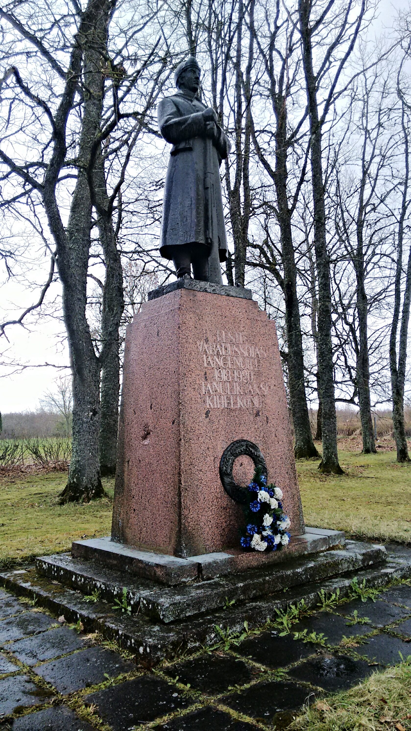 Monument to the War of Independence in Äksi near Tartu. Shot on a rainy day in April.